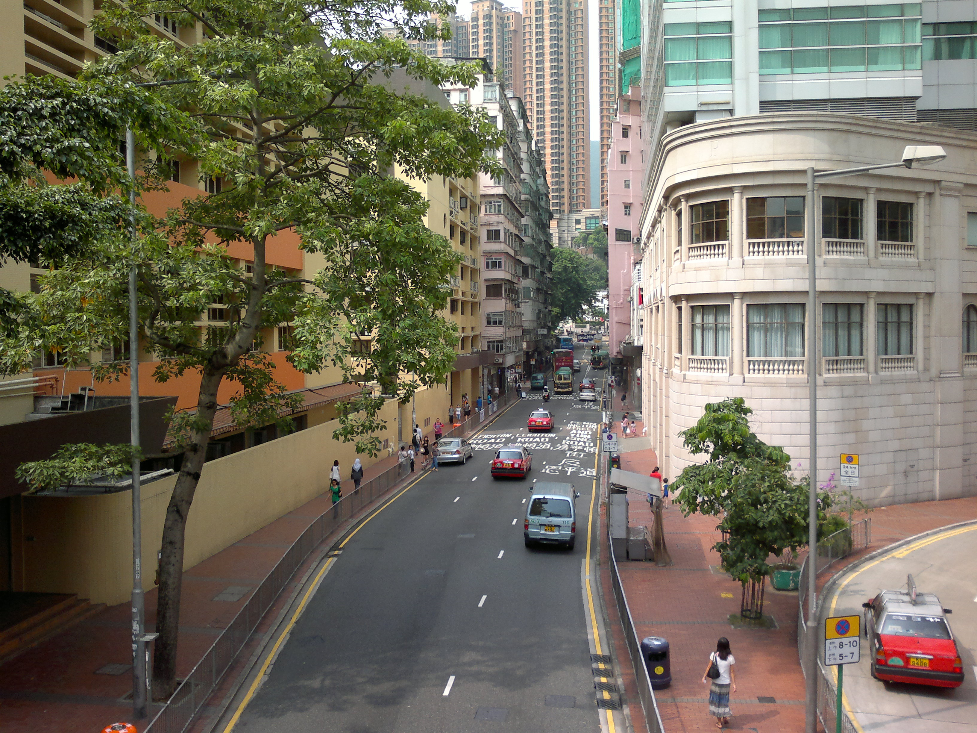 Leighton Road near Irving Street